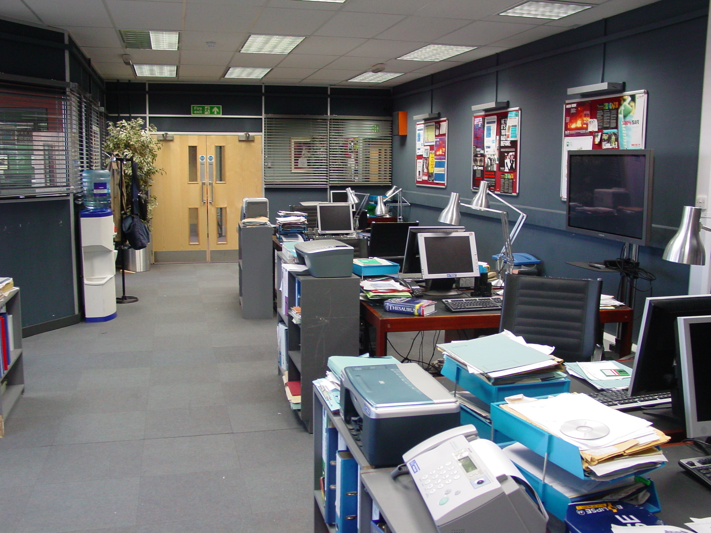 Photo of the set of the CID (Criminal Investigation Department) office used in the British police drama series The Bill.